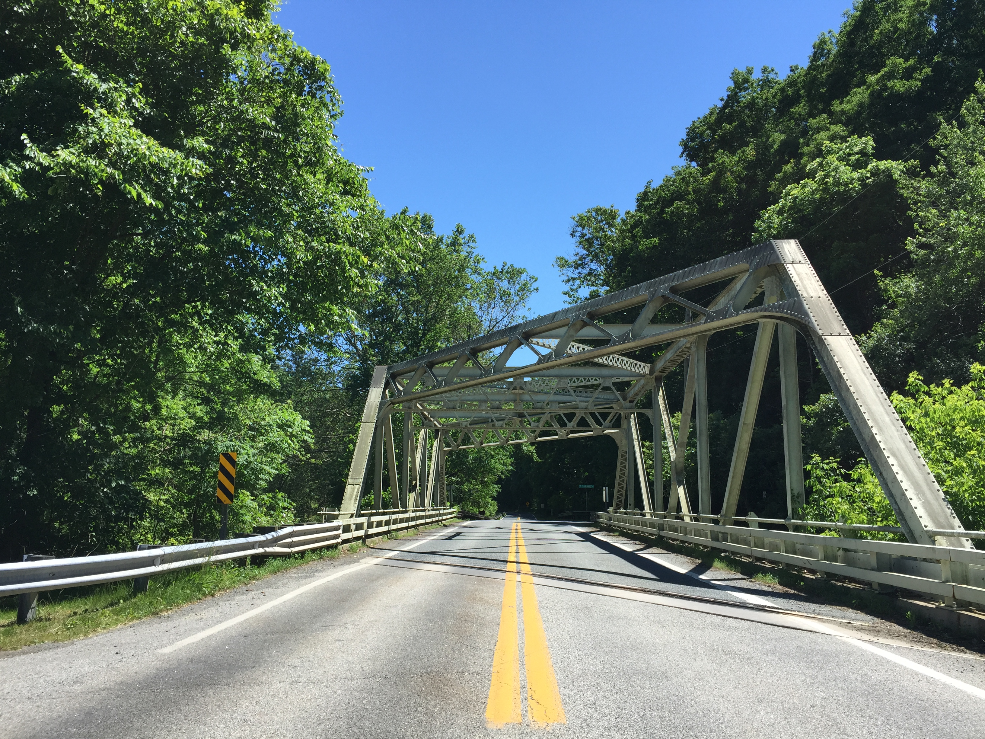 View south along Maryland State Route 24 (Rocks Road) crossing the bridge over Deer Creek in Rocks State Park, Harford County, Maryland